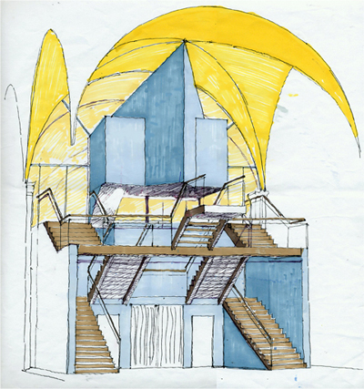 Restoration and renovation of Teatro Ruzante in Padua. Study of the interior space: the control room.